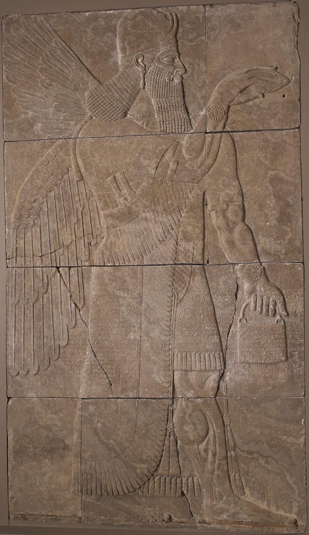 This relief decorated the interior wall of the northwest palace of King Ashurnasirpal II at Nimrud, which is situated in present-day Iraq. With his right hand, the genius (or benevolent spirit) uses a cone-shaped object to sprinkle from his bucket some magic potion upon either a sacred tree or the king depicted on the adjacent relief. The genius wears the horned crown of a deity and the elegant jewelry and fringed cloak of contemporary courtiers.